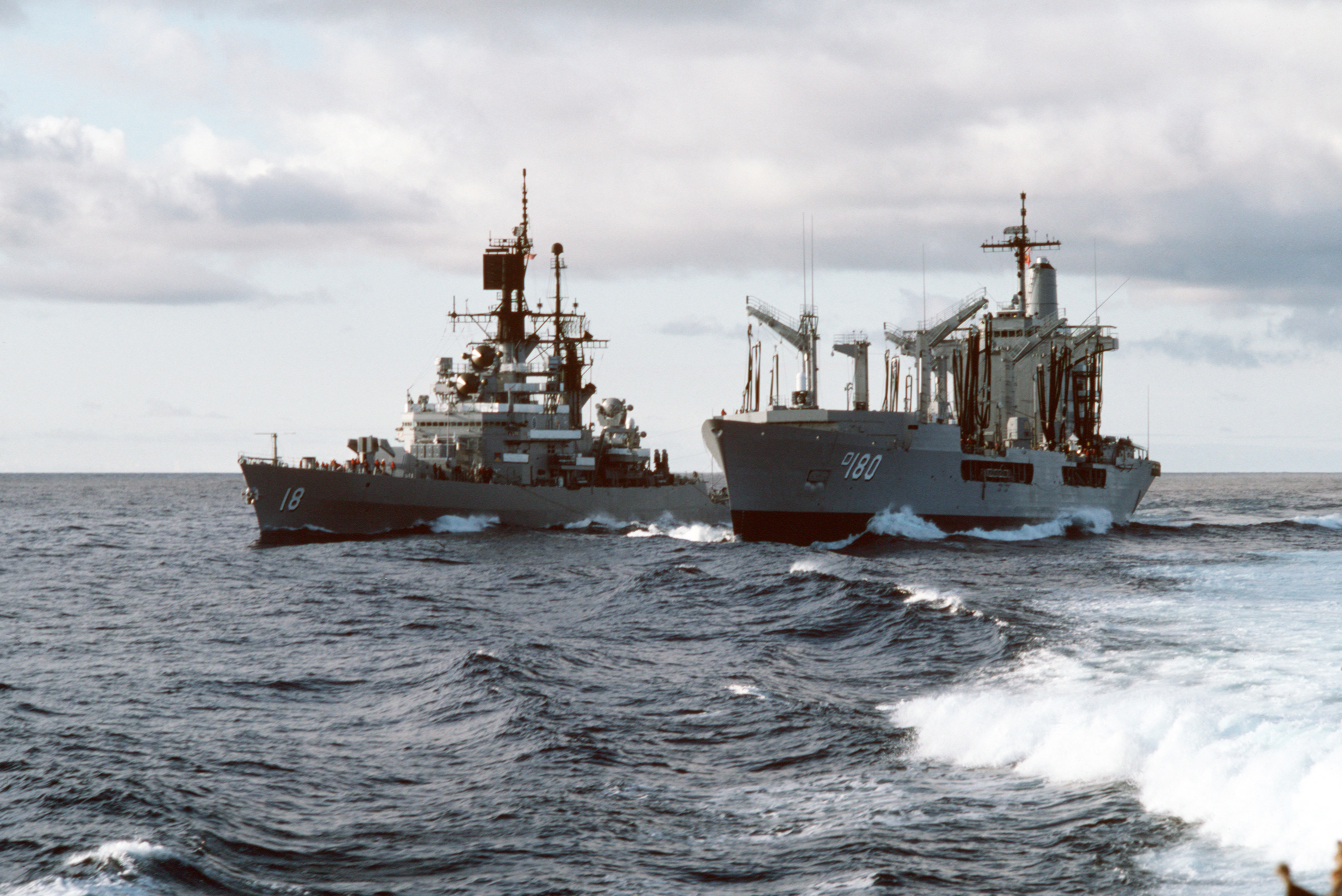 The U.S. Navy fleet oiler USS Willamette (AO-180) refuels the guided missile cruiser USS Worden (CG-18) in the Pacific Ocean on 1 July 1986. Worden was participating in a midshipmen's summer training cruise.